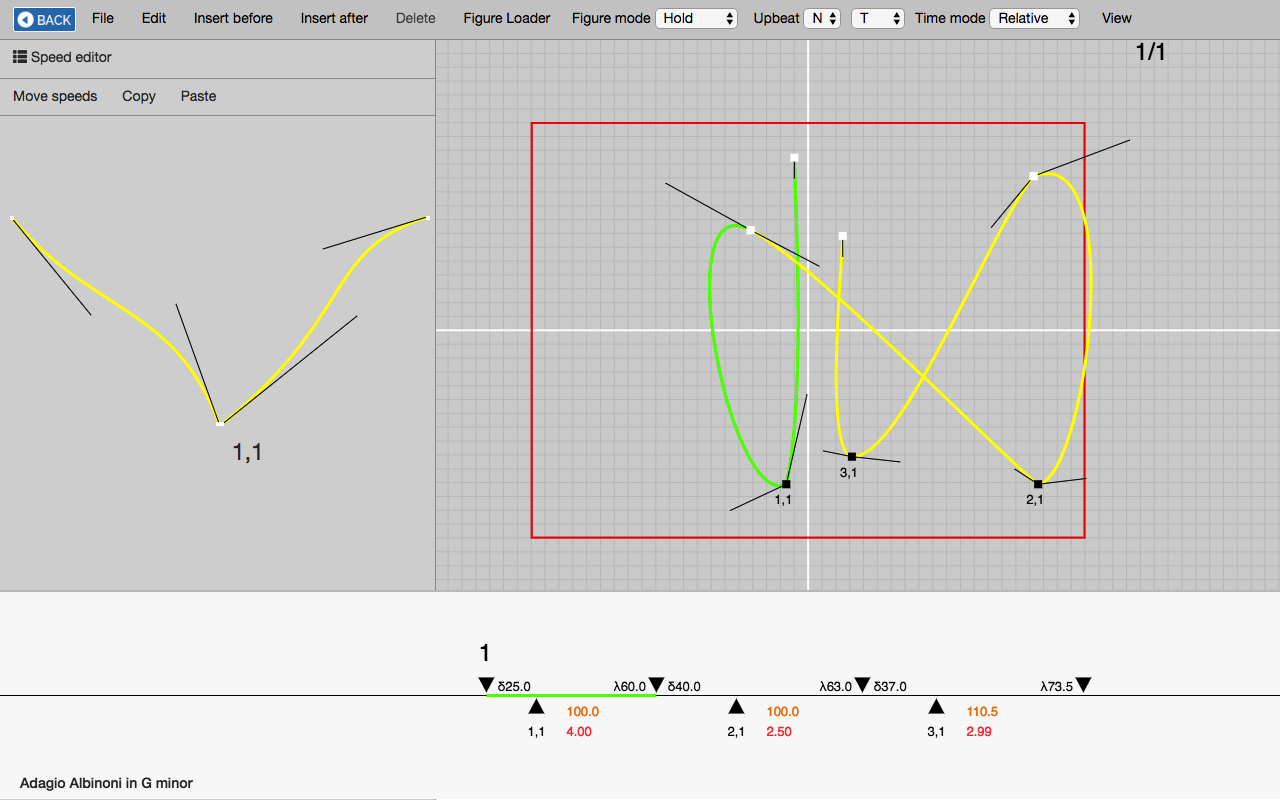 Dot Conductor Web editor is the first tool which allow to edit the movement of the music performance